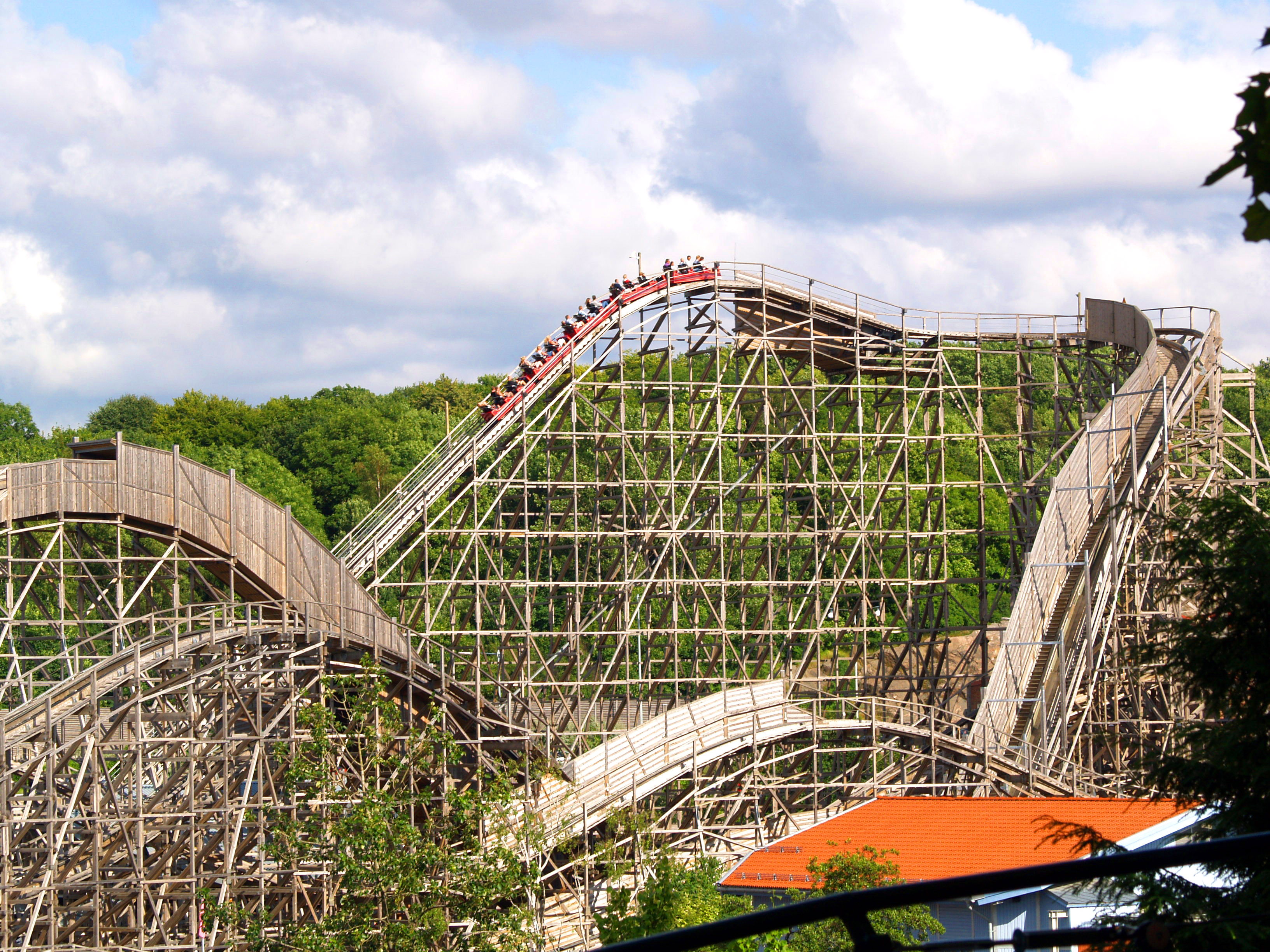 Roller coaster Balder at Liseberg in Gothenburg, Sweden.